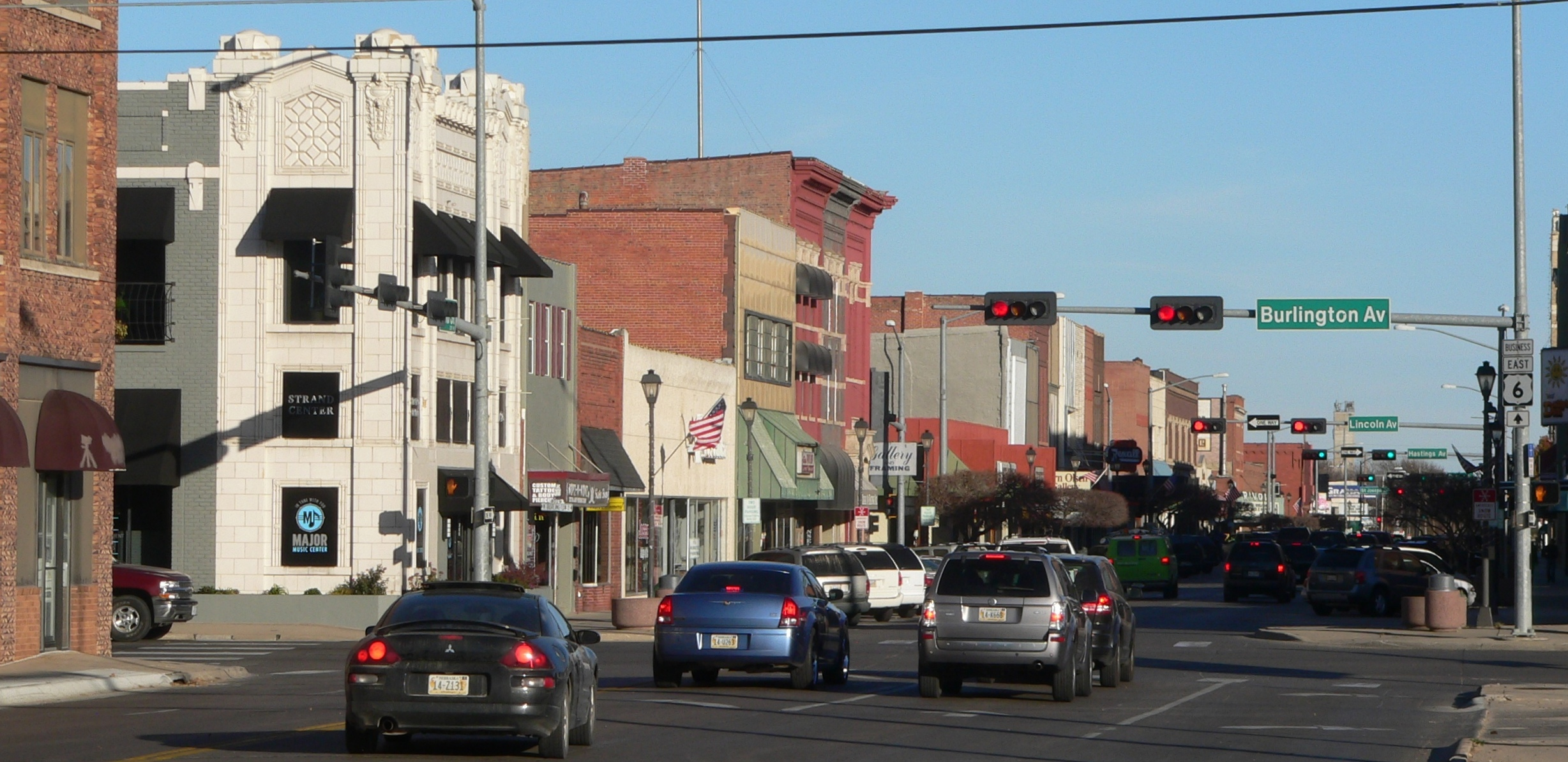 Downtown Hastings, Nebraska: north side of 2nd Street. Camera is facing east-northeast from about Lexington Avenue.